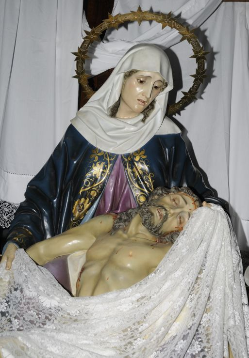 La Piedad.